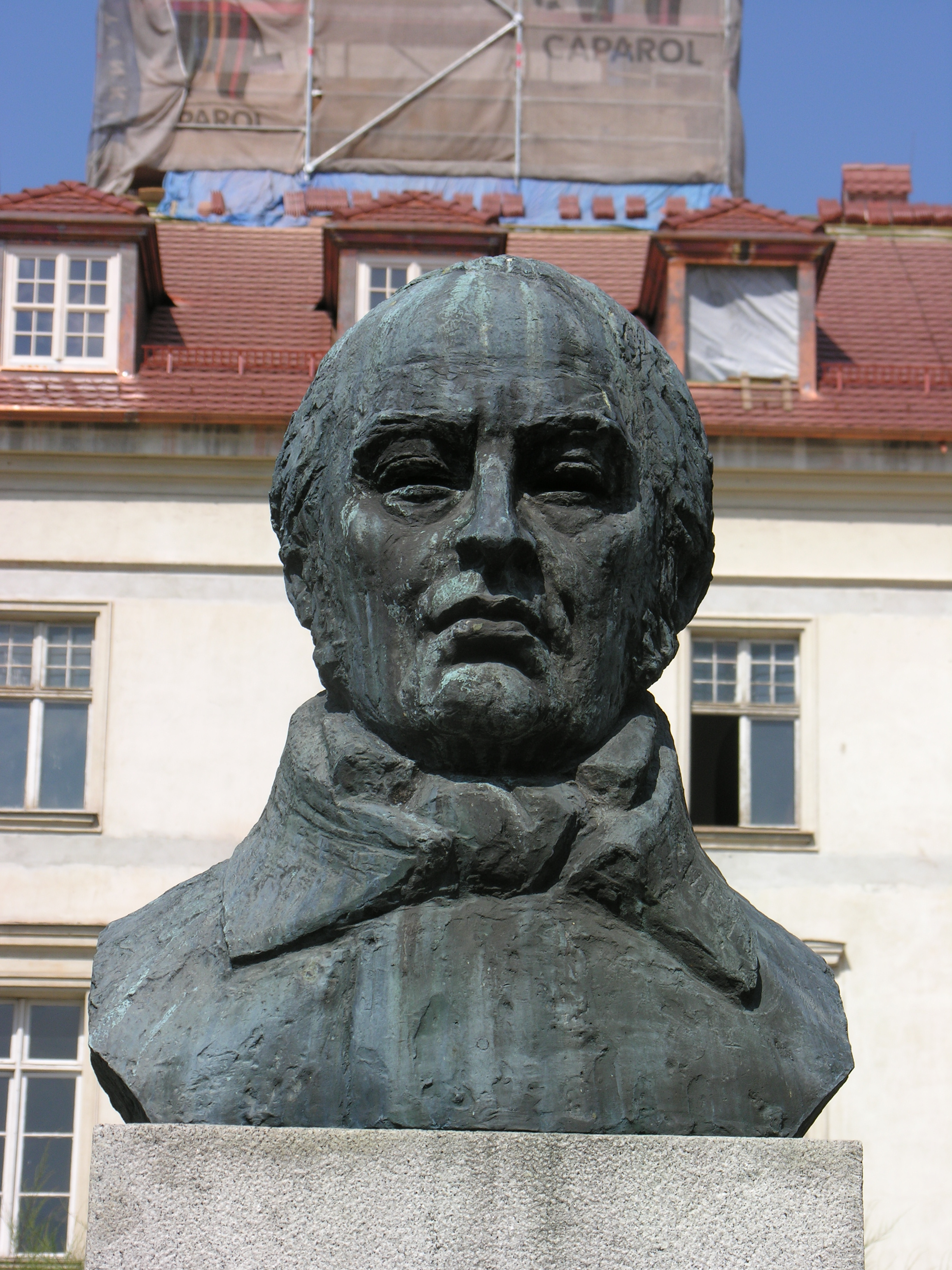 Pomnik Józefa Elsnera na rynku w Grodkowie